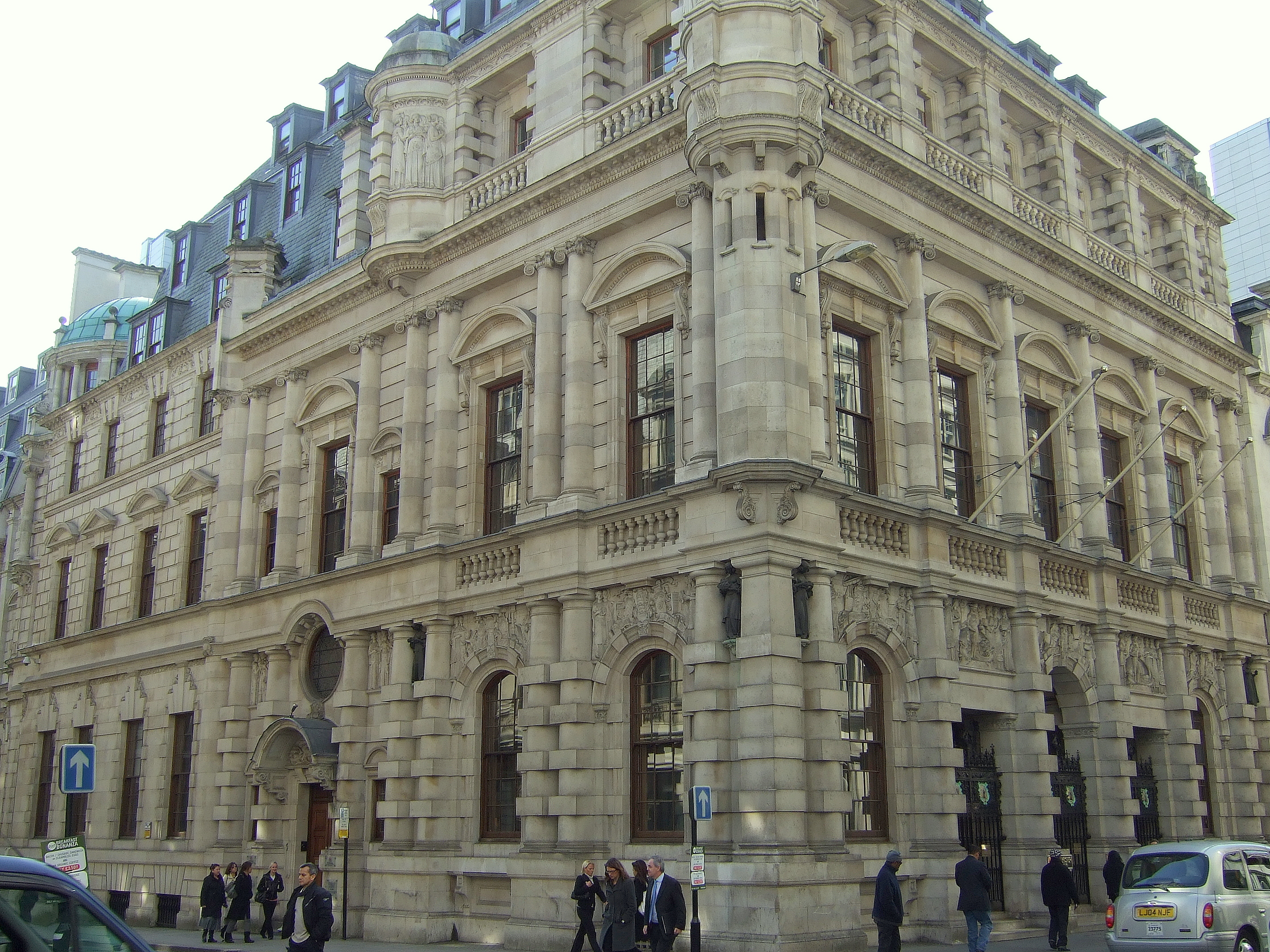 Lloyd's Register of Shipping - Fenchurch St. * Lloyd's Avenue - City of London - T. E. Collcutt architect.